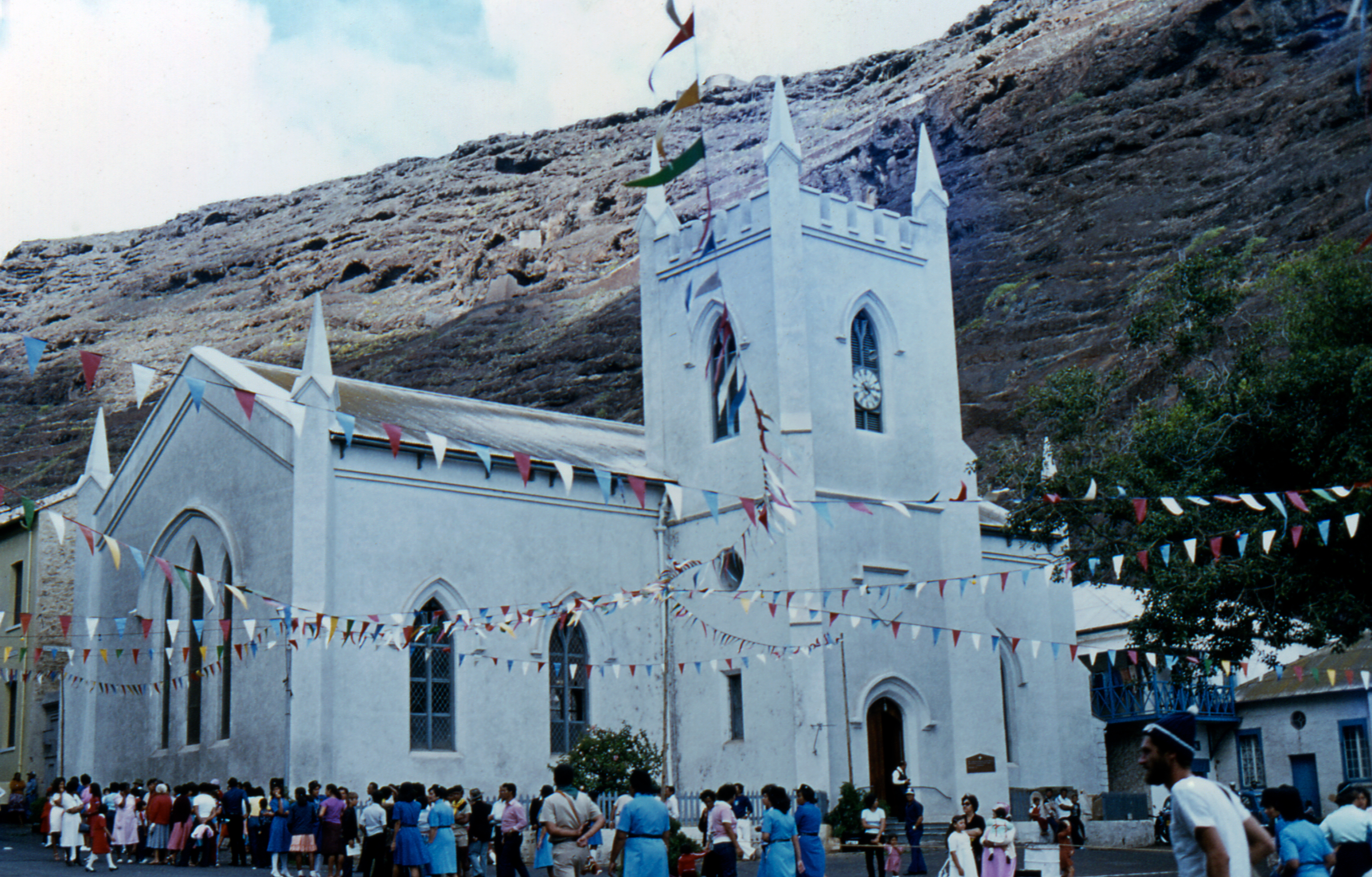 The Anglican Church of St James, Jamestown, Island of St Helena. Image taken during the 1834 to 1984 celebration by Andrew Neaum..